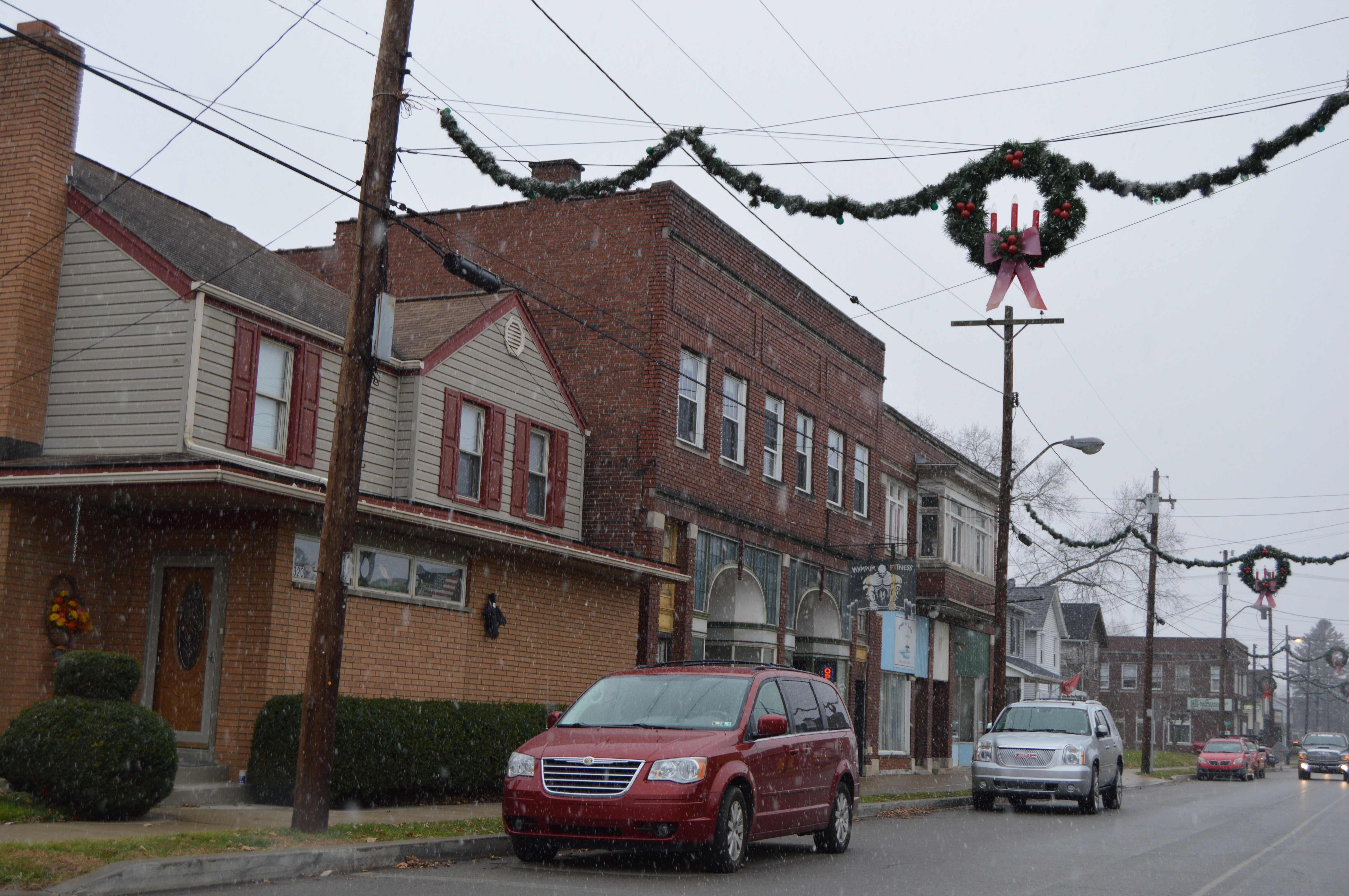 Buildings on the southwestern side of Main Street, northwest of the Church Street intersection, in Wampum, Pennsylvania, United States.